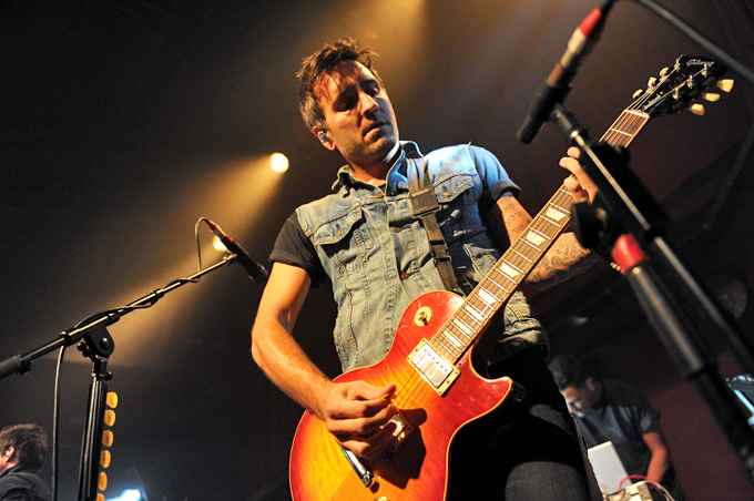 Anberlin @ Club Capitol (26/8/2011)